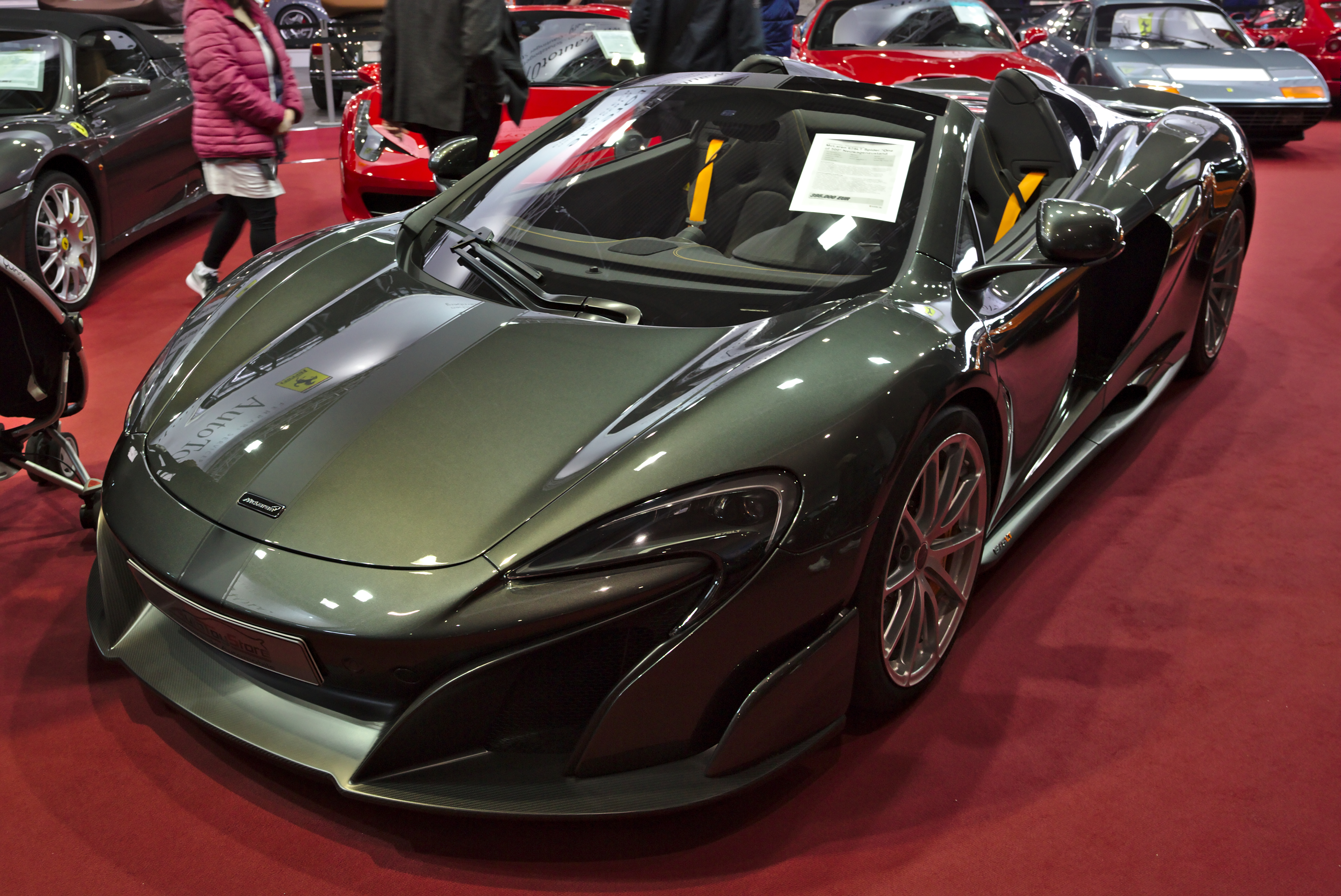 McLaren 675LT One of 500 at Retro Classics 2018